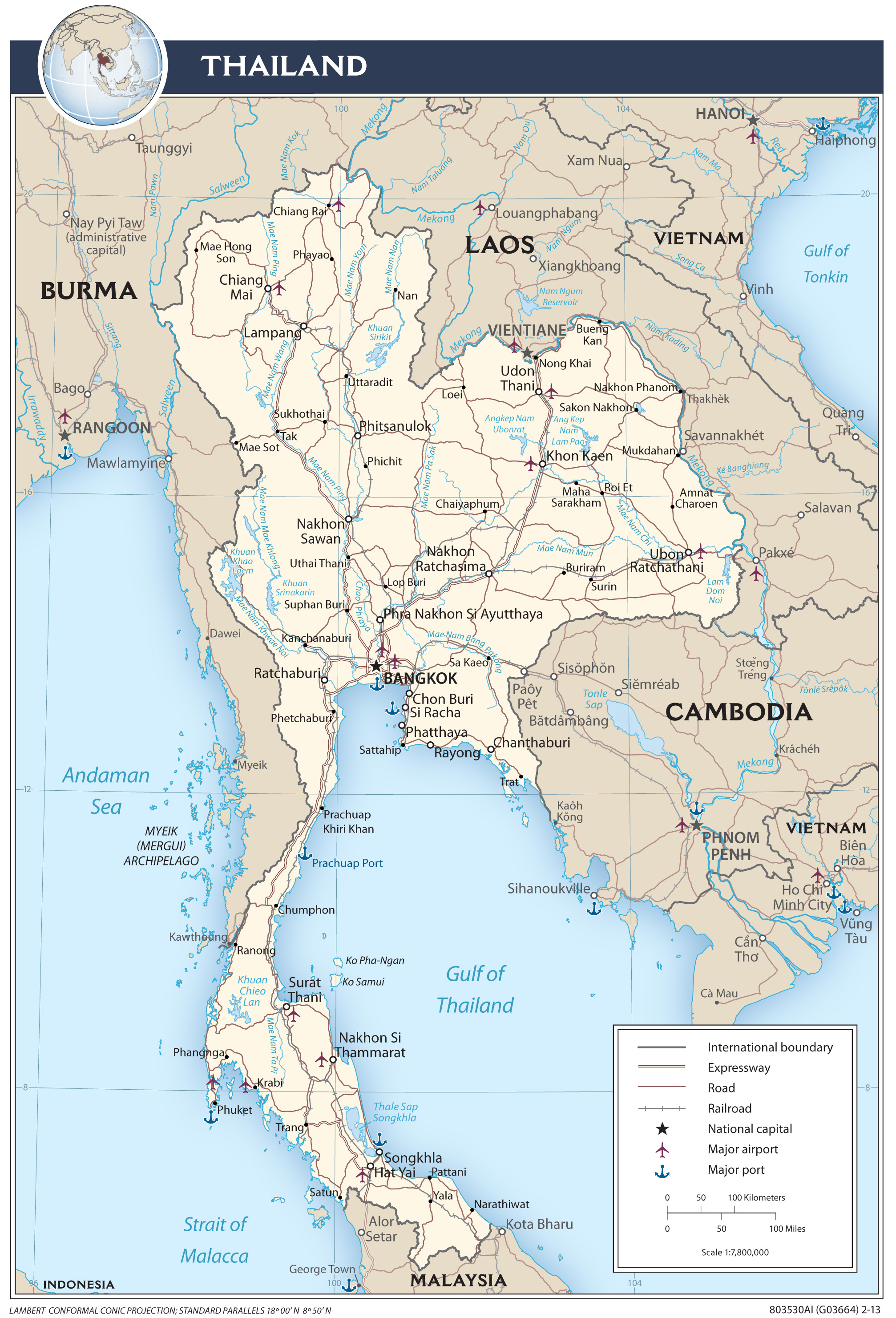 Transport system in Thailand, 2013.